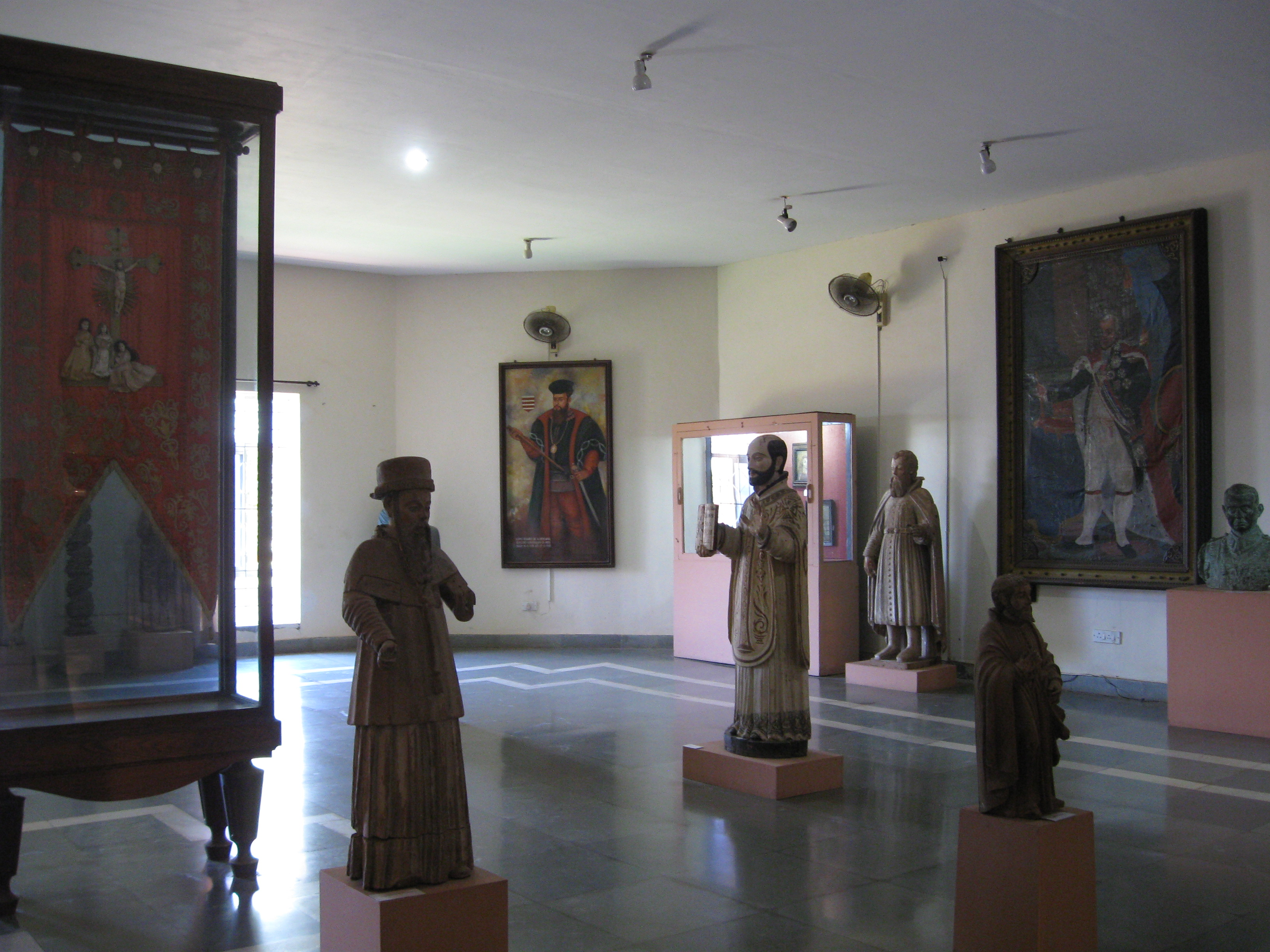 Artifacts in the Christian Art Gallery in the Goa State Museum